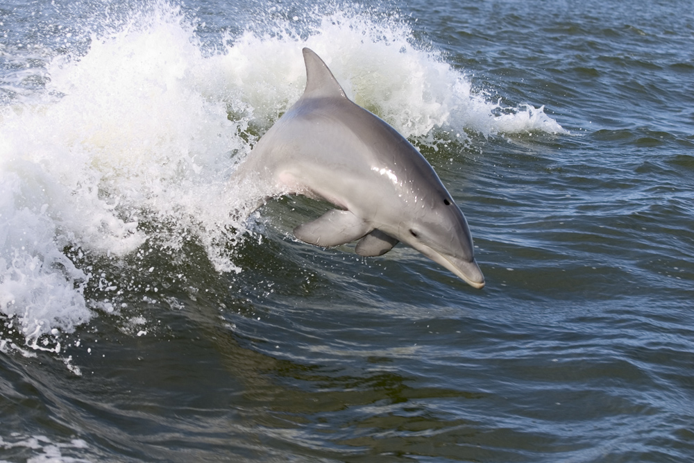 Dolphin2007,04,14 Reprint from Flickr